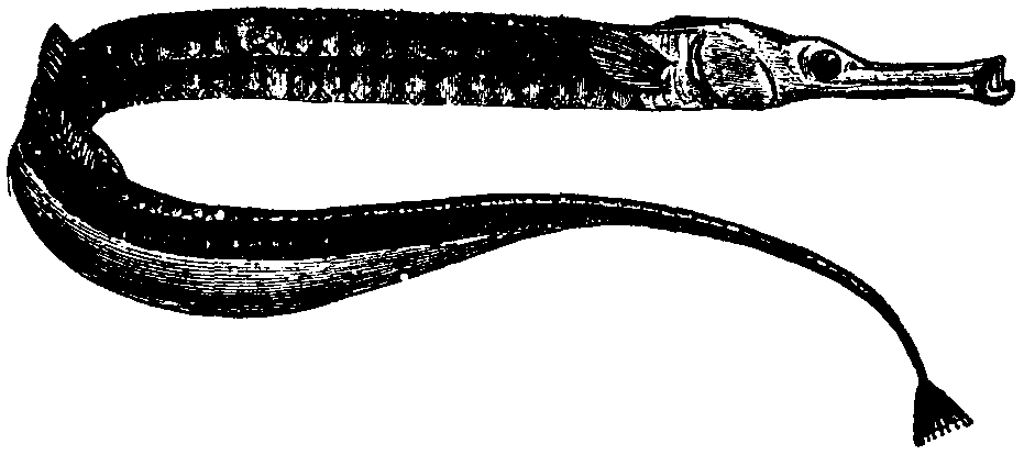 Drawing of a male pipe-fish (Syngnathus acus) with sub-caudal pouch.